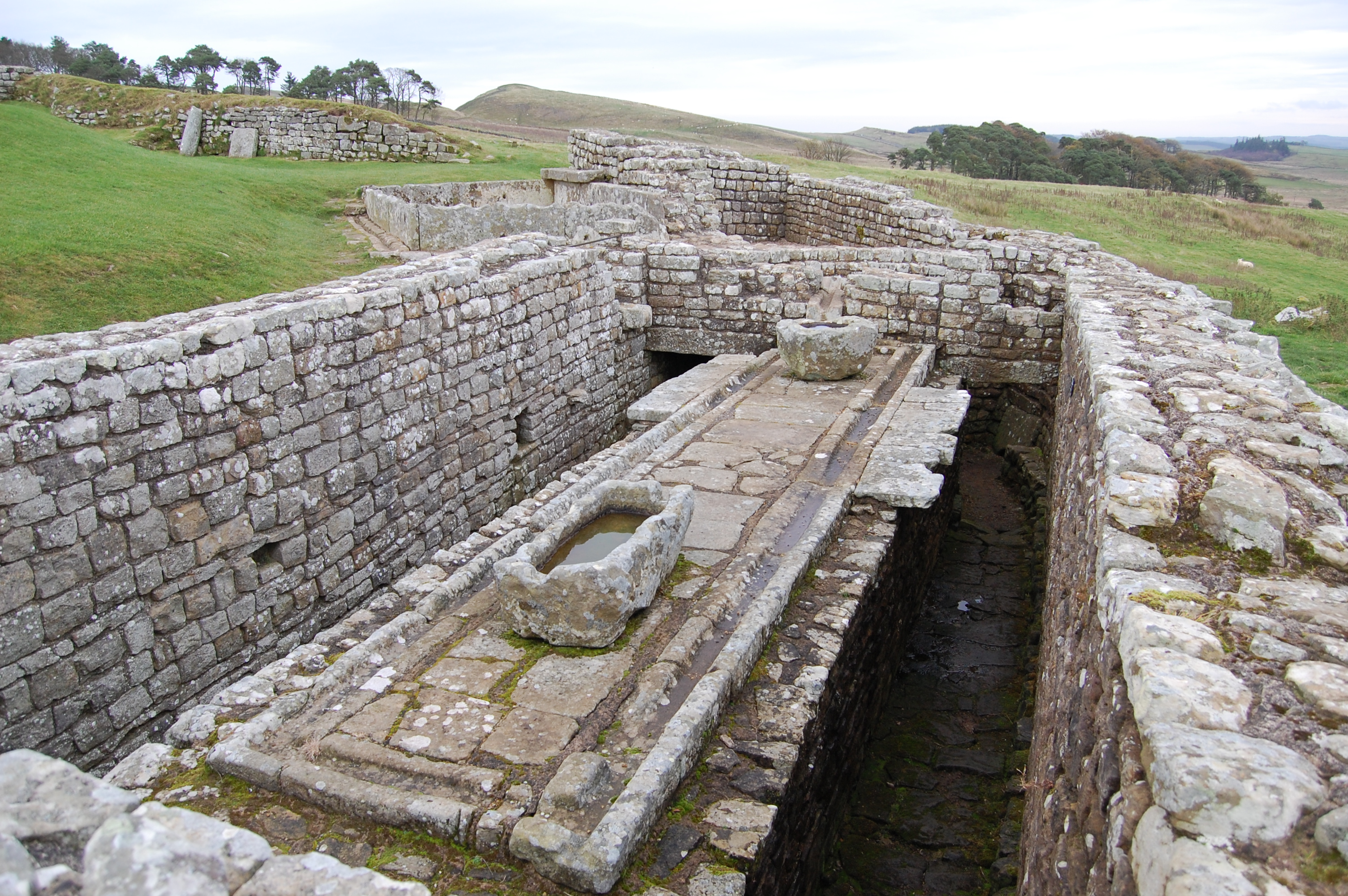 The latrines of Housesteads Roman Fort along Hadrian's Wall.